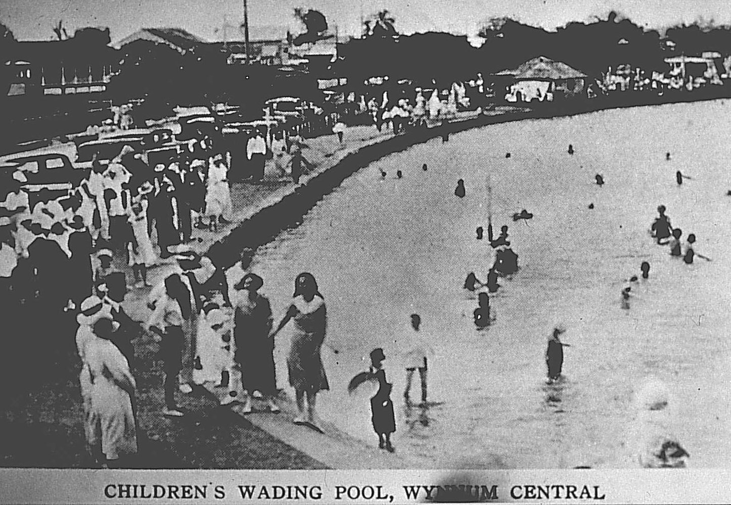 Children swimming in the tidal wading pool on Wynnum foreshore.